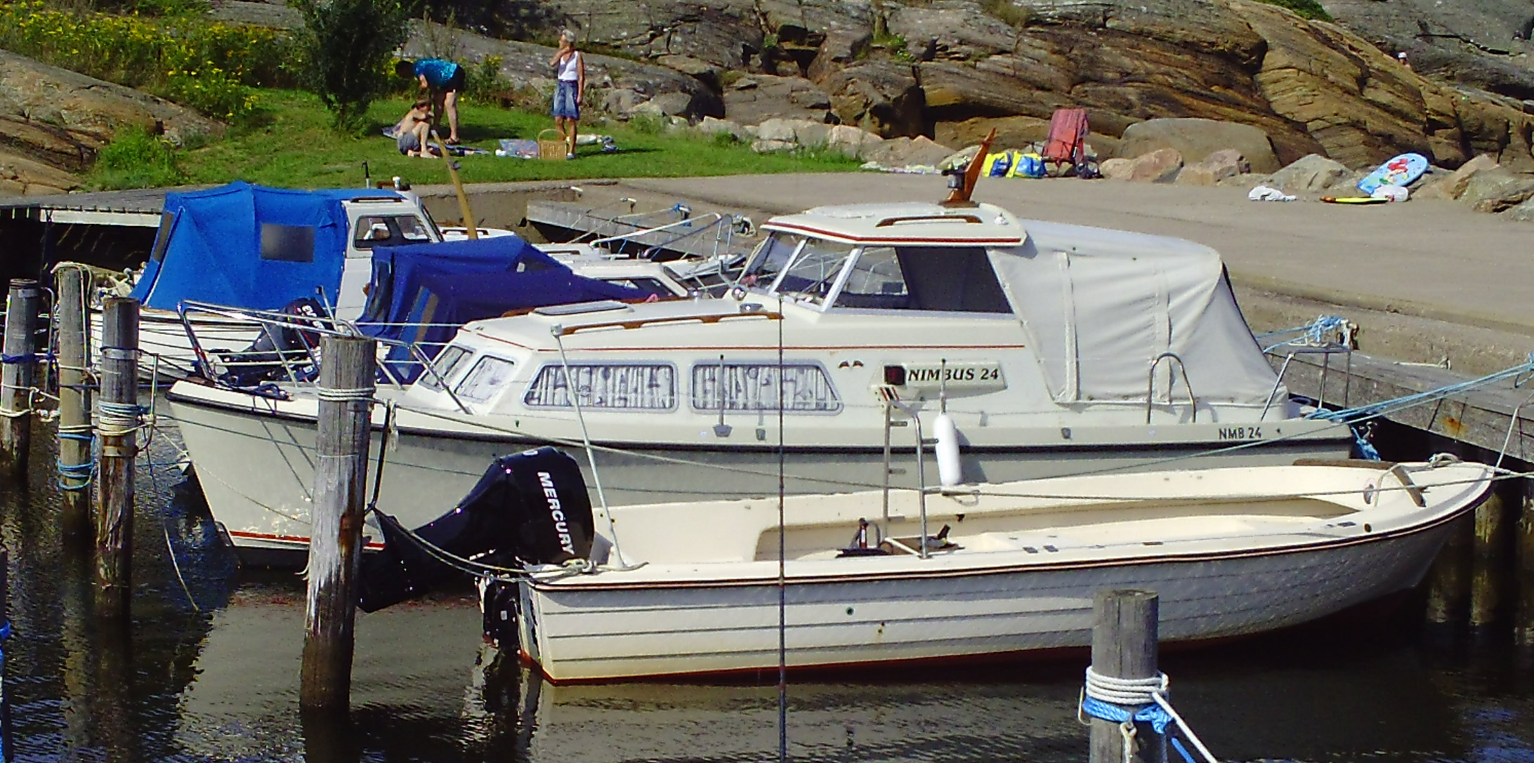 A Nimbus 24.